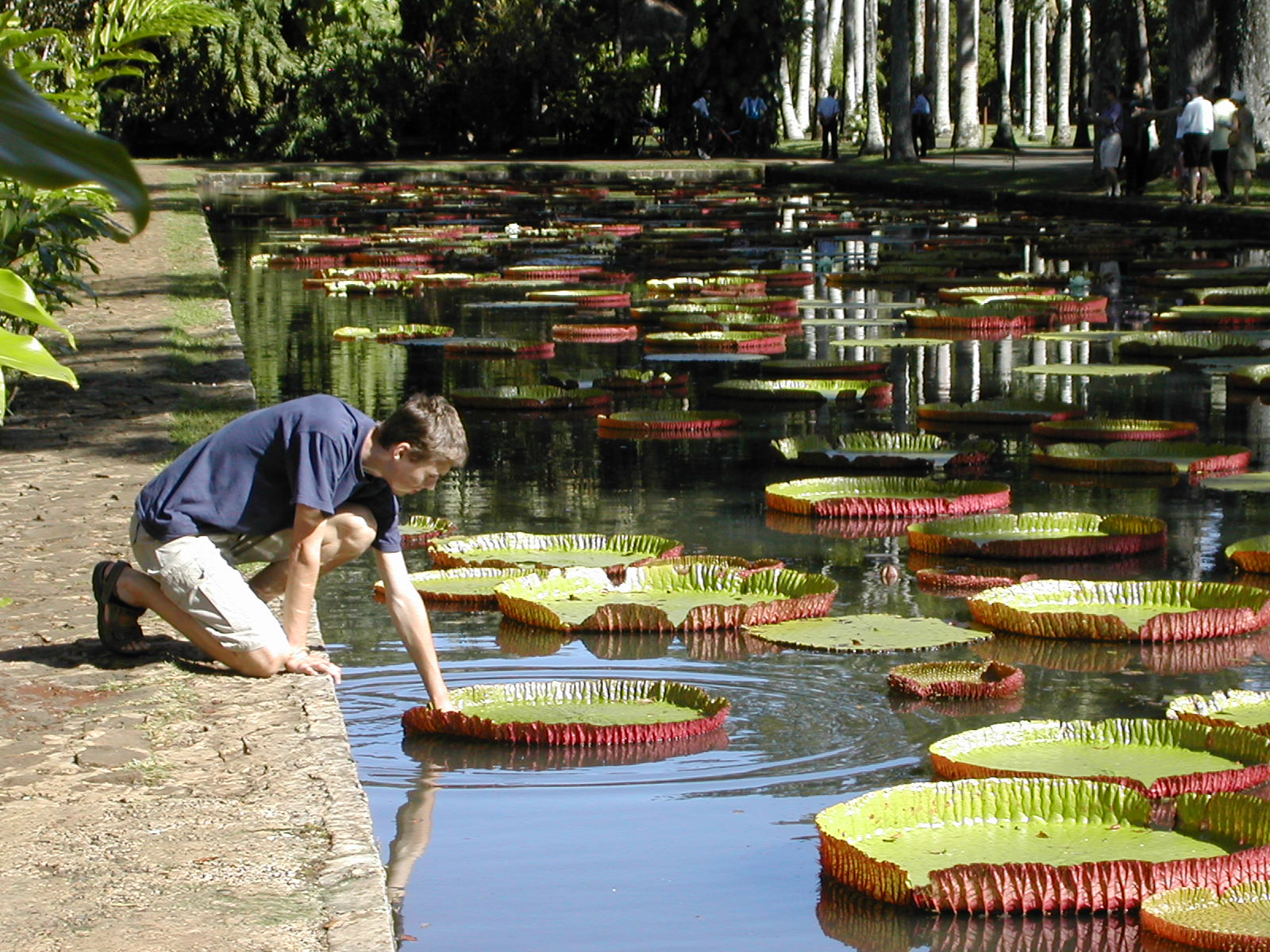 Victoria hybrid, possibly 'Longwood Hybrid'.